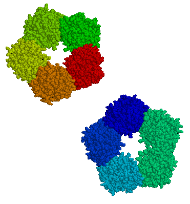 C-reactive protein drawn from PDB 1GNH by JFW | T@lk